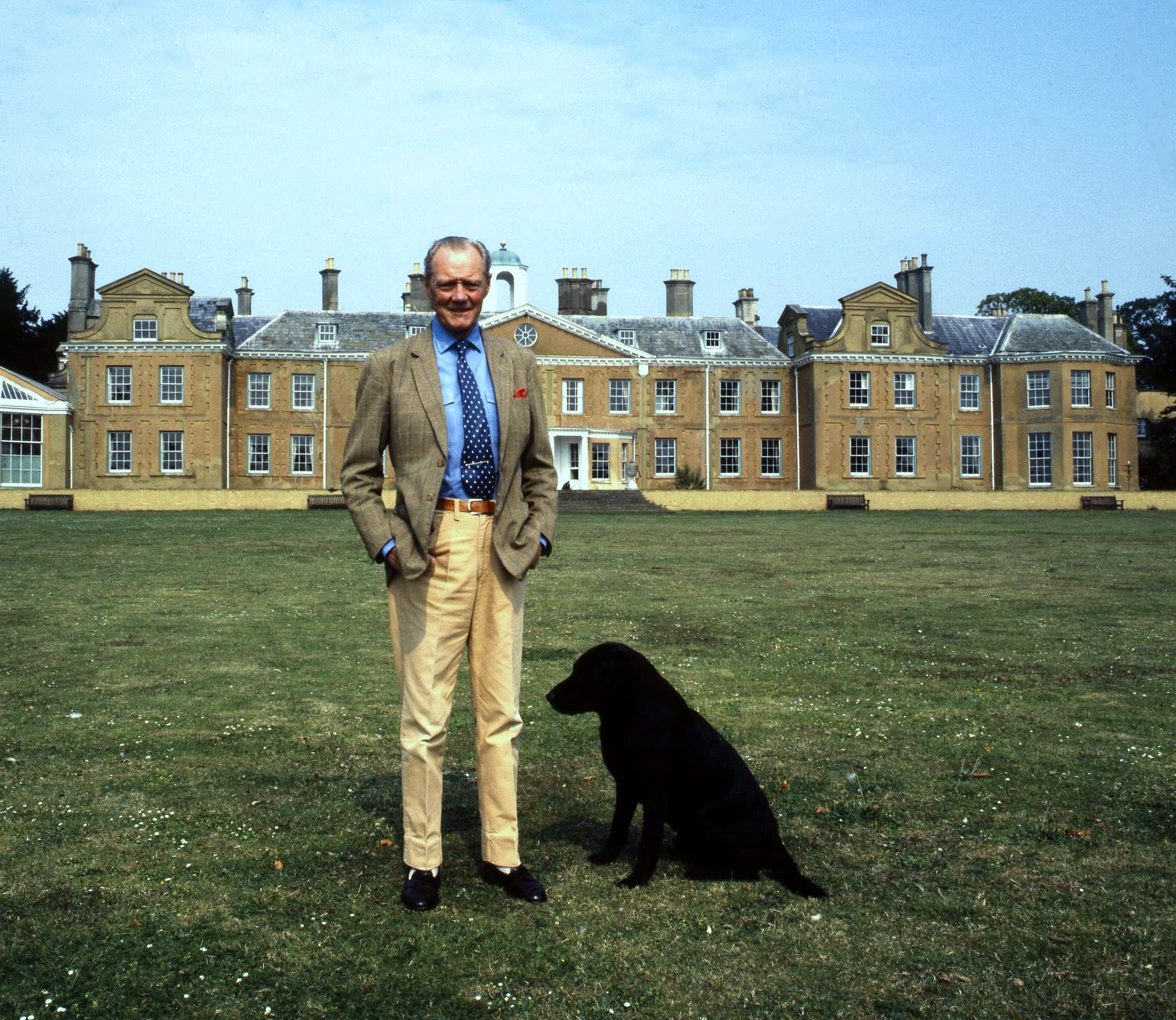 8th Duke of Wellington and his dog, outside his family seat Stratfield House.